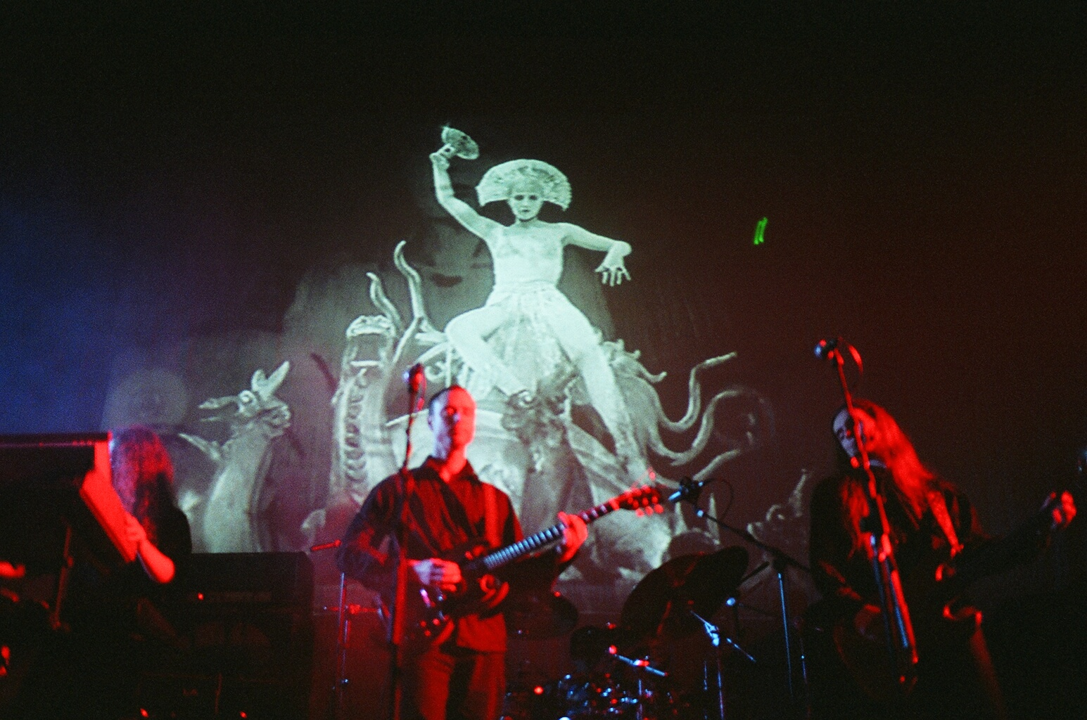 Litmus at the Exeter Phoenix.